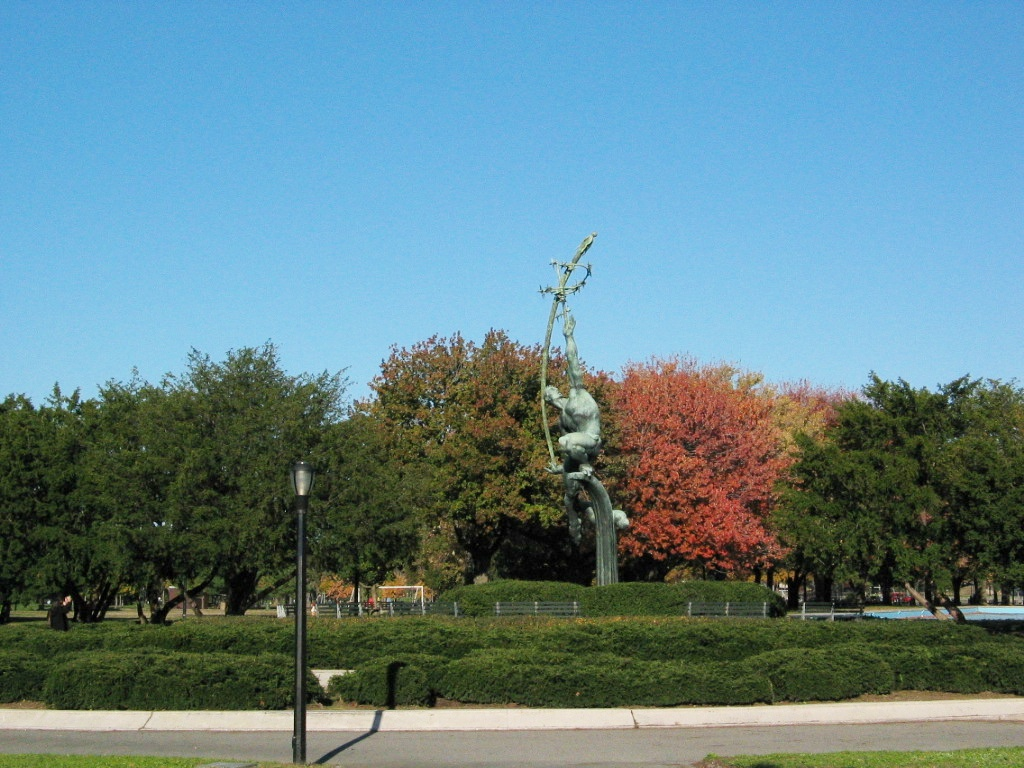 The Rocket Thrower by Donald De Lue (1964) in the Flushing Meadows Corona Park